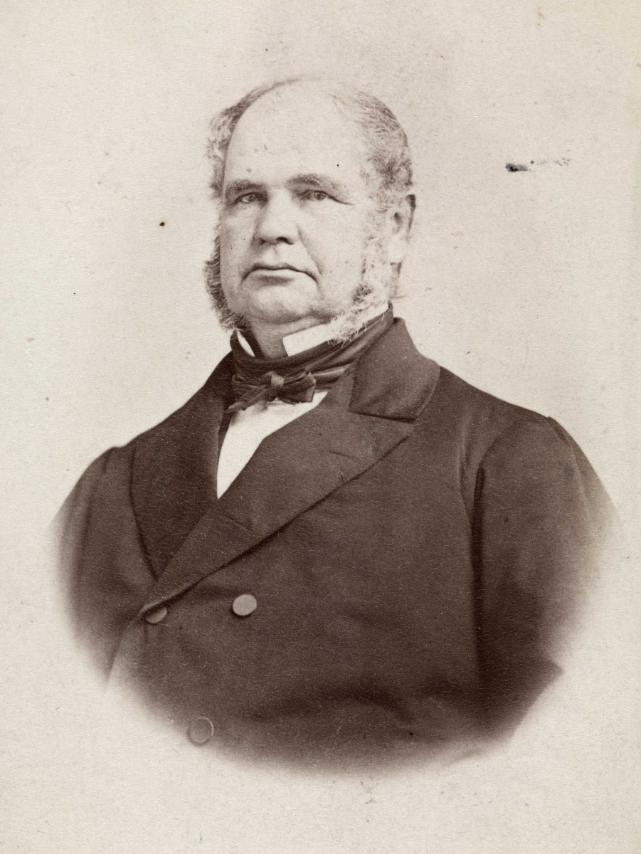 Norwegian priest and member of the parliament Bernt Sverdrup Maschmann (1805–69). Photo from the early 1860s.